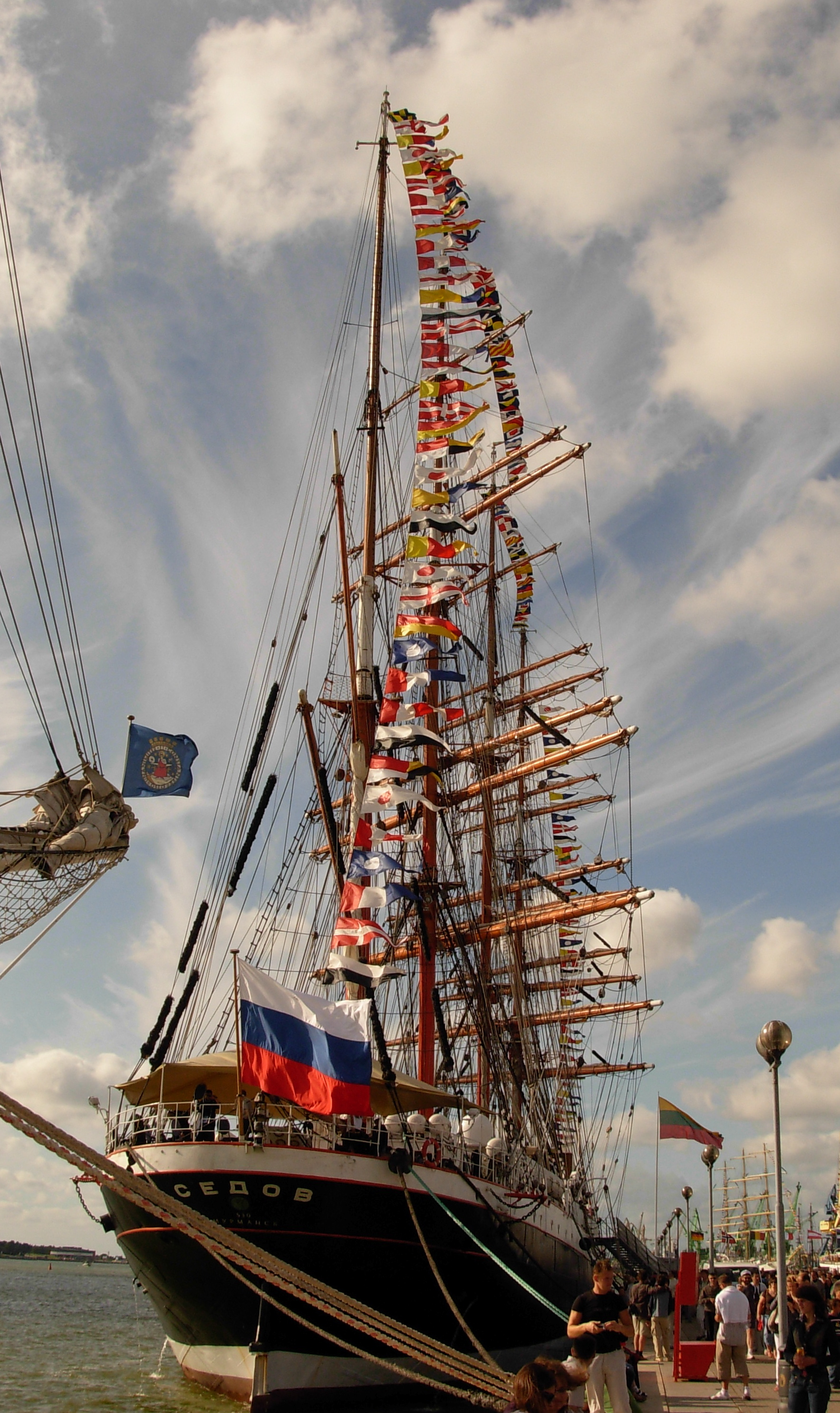 "Sedov" ship during the Maritime festival in Klaipėda, Lithuania (2009)